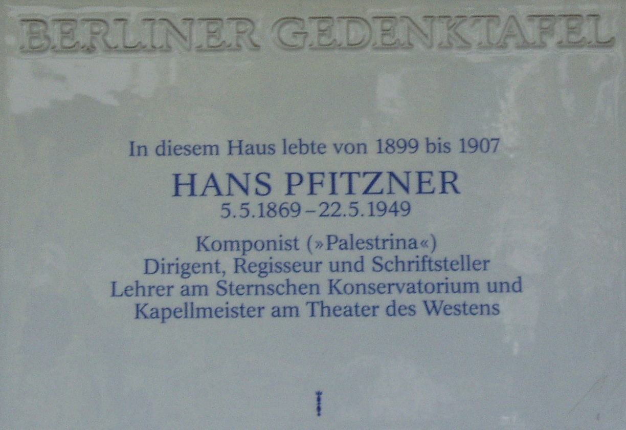 Berliner Gedenktafel (Berlin memorial plaque) for Hans Pfitzner in Berlin-Wilmersdorf, Durlacher Straße 25